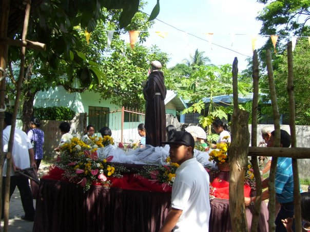 PATRON SAINT